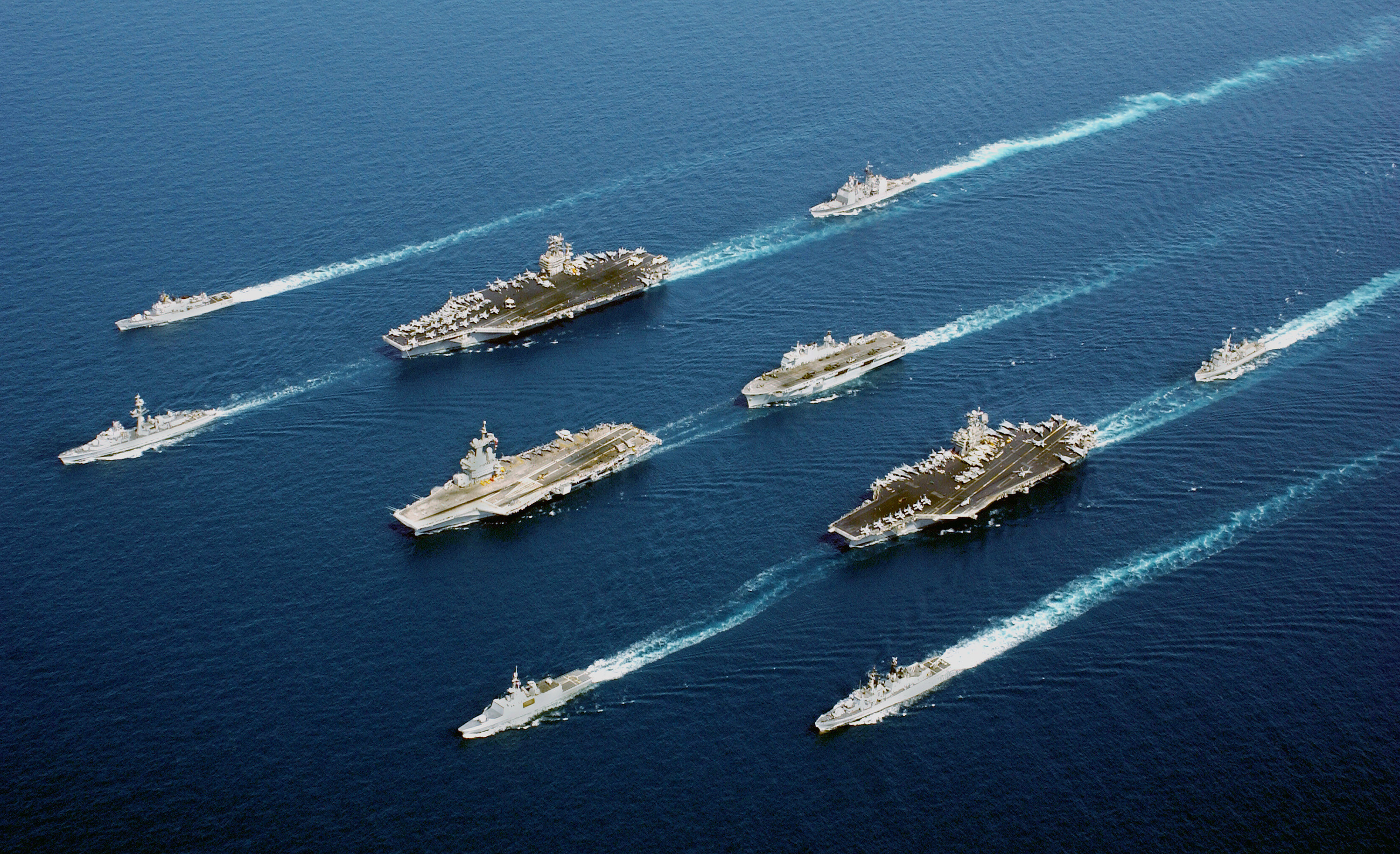 Naval vessels from five nations move in parade formation for a rare photographic opportunity at sea. In four descending columns, from left to right: ITS Maestrale (F 570), De Grasse (D 612); USS John C. Stennis (CVN-74), Charles de Gaulle (R91), Surcouf (F 711); USS Port Royal (CG-73), HMS Ocean (L12), USS John F. Kennedy (CV-67), ITS Luigi Durand de la Penne (D560); and HNLMS Van Amstel (F 831).